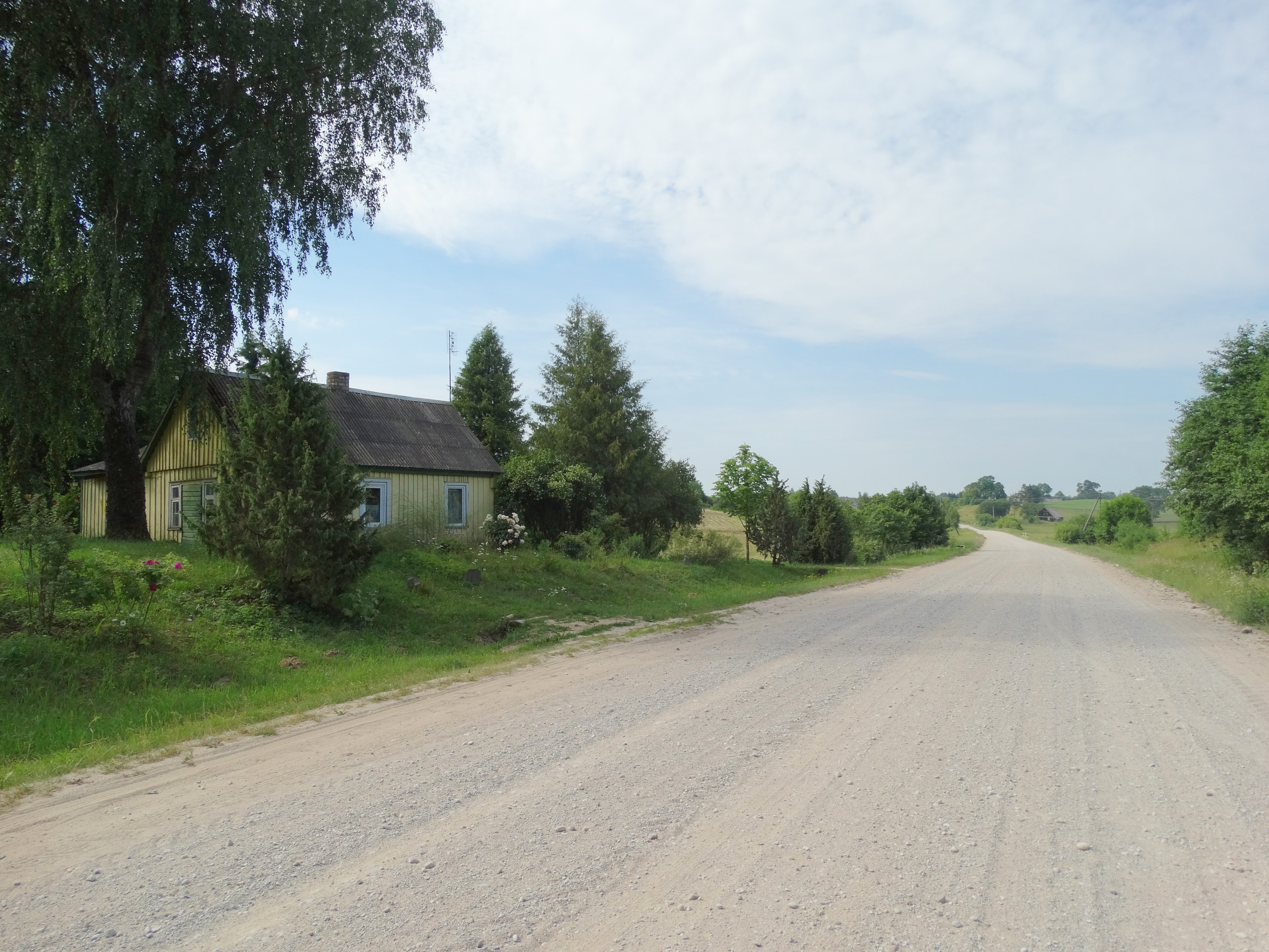 Kuršai, Telšiai district, Lithuania